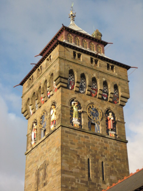 Tower, Cardiff Castle During the 19th century the 3rd Marquess transformed Cardiff Castle into a Welsh Victorian Camelot.